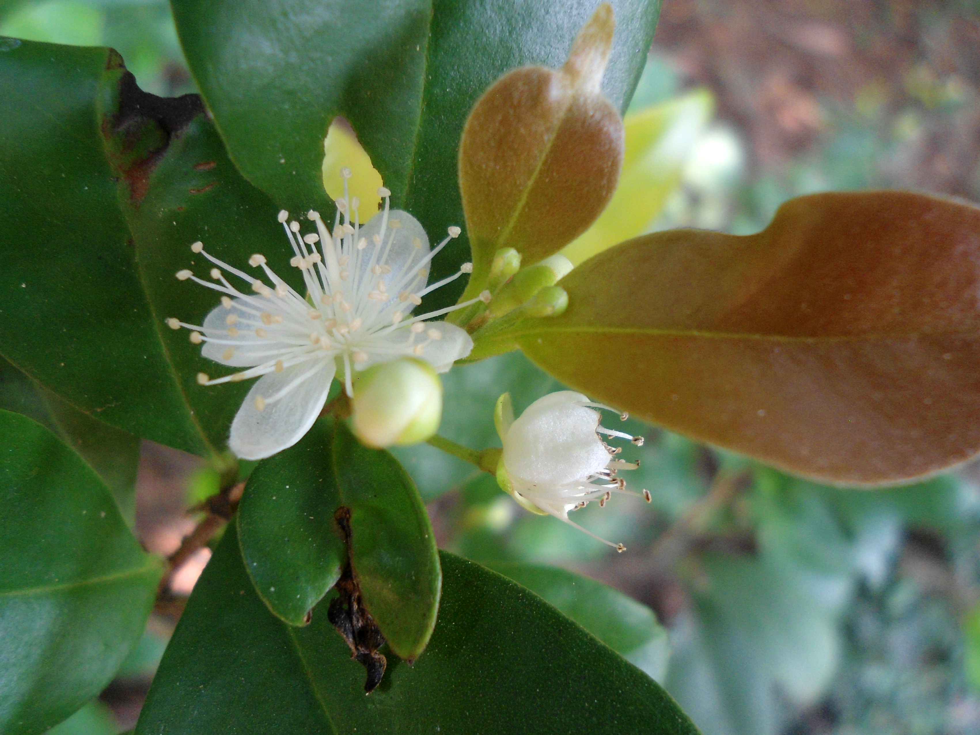 (Eugenia roxburghii) Roxburgh's Cherry flowers at Kambalakonda Wildlife Sanctuary, Visakhapatnam